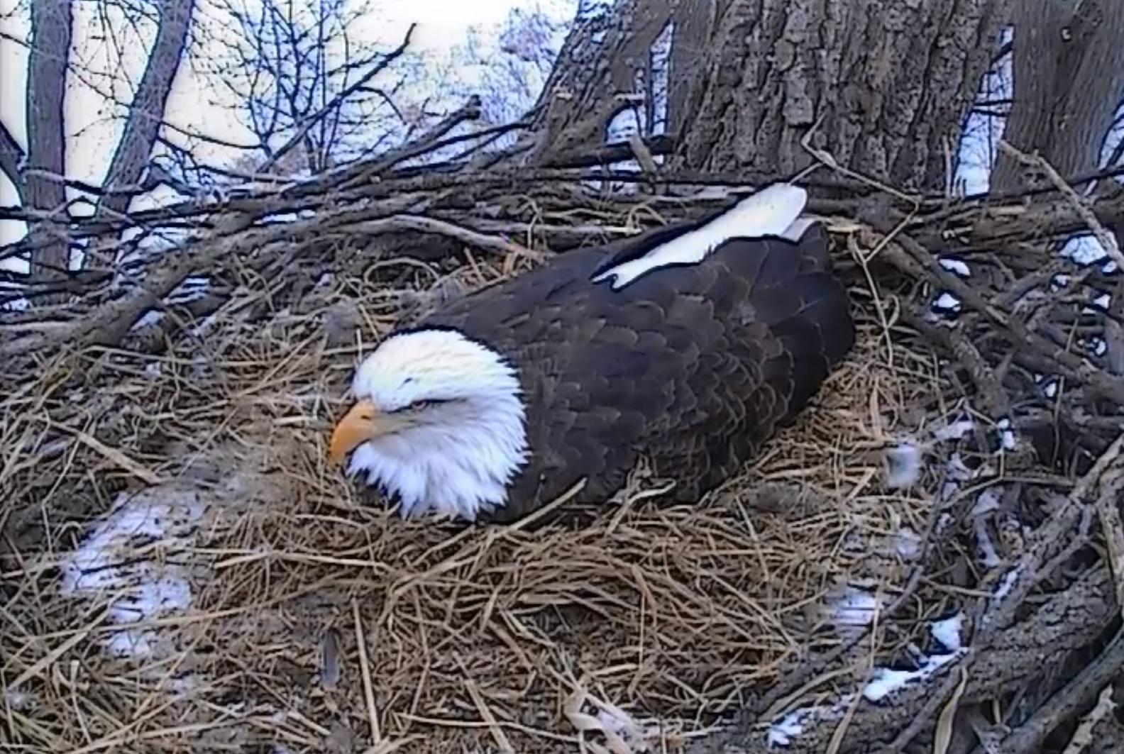 Screen grab from Ustream.tv